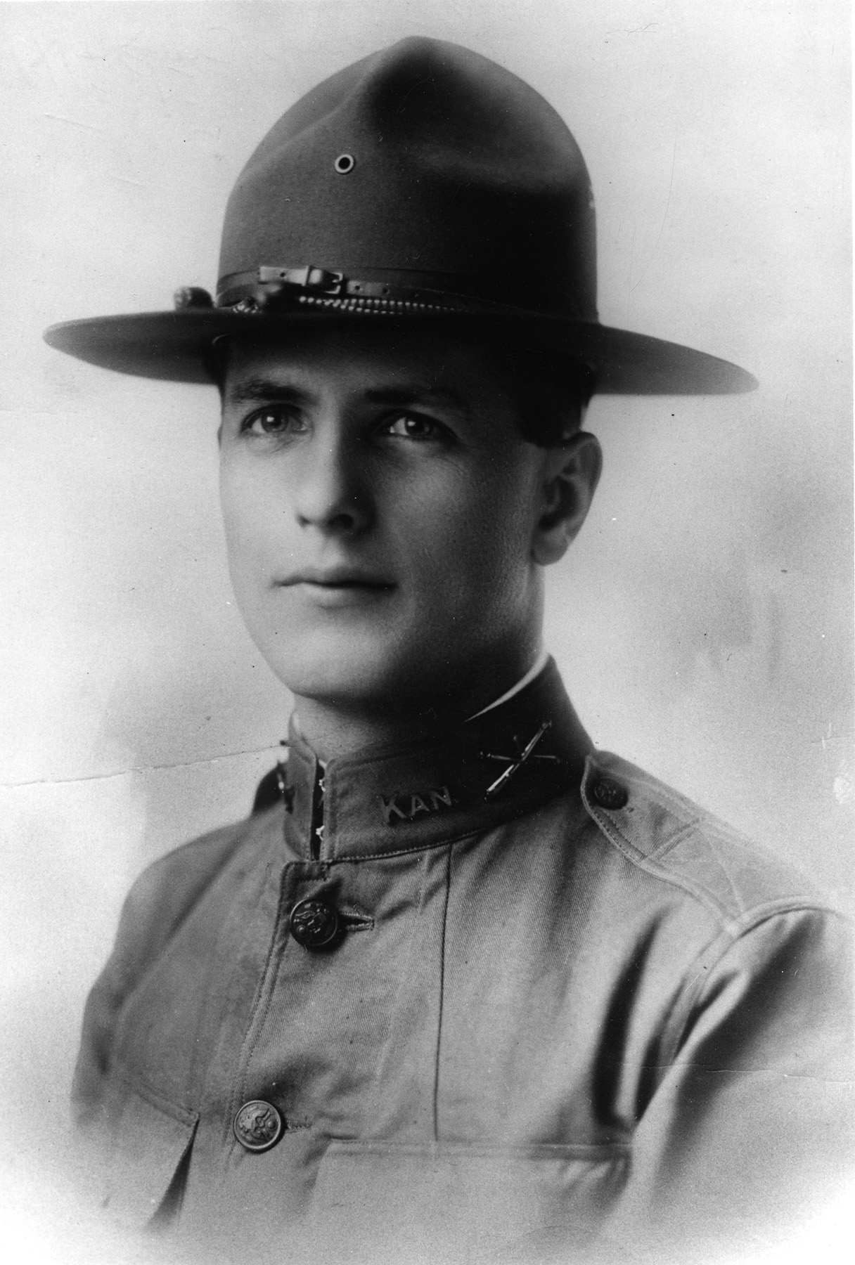 Lt. Erwin R. Bleckley (U.S. Air Force photo).